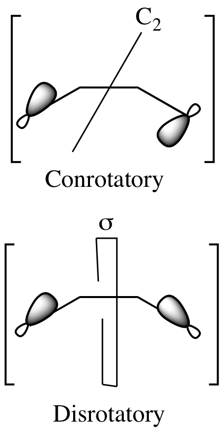 Symmetry of conrotatory and disrotatory transition states for the electrocyclization of 1,3-butadiene.